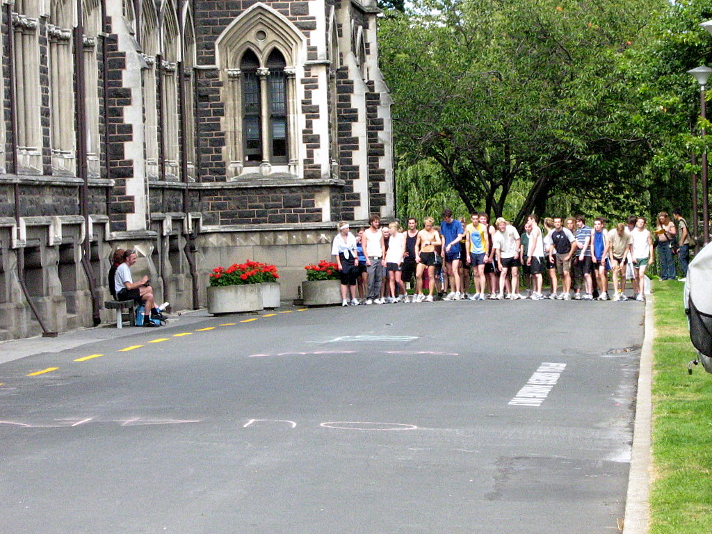 In the spirit of Chariots of Fire contestants must race around the University of Otago clocktower building (Dunedin, New Zealand), beginning at the first chime and returning before the last chime of 12 strikes. The annual contest takes place during 'O-week' (orientation) at the start of each academic year.